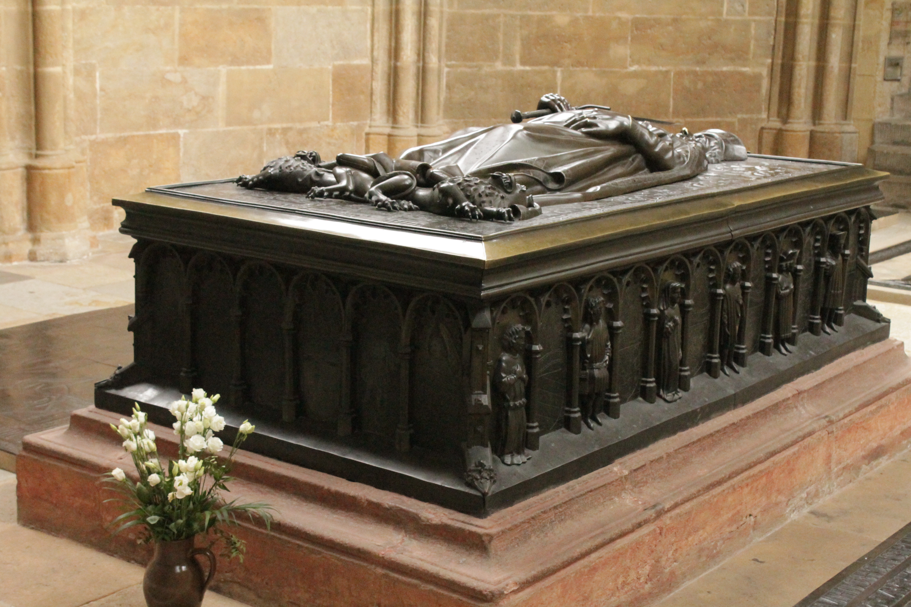 The grave of Frederick I of Saxony, Princes Chapel, Meissen Cathedral